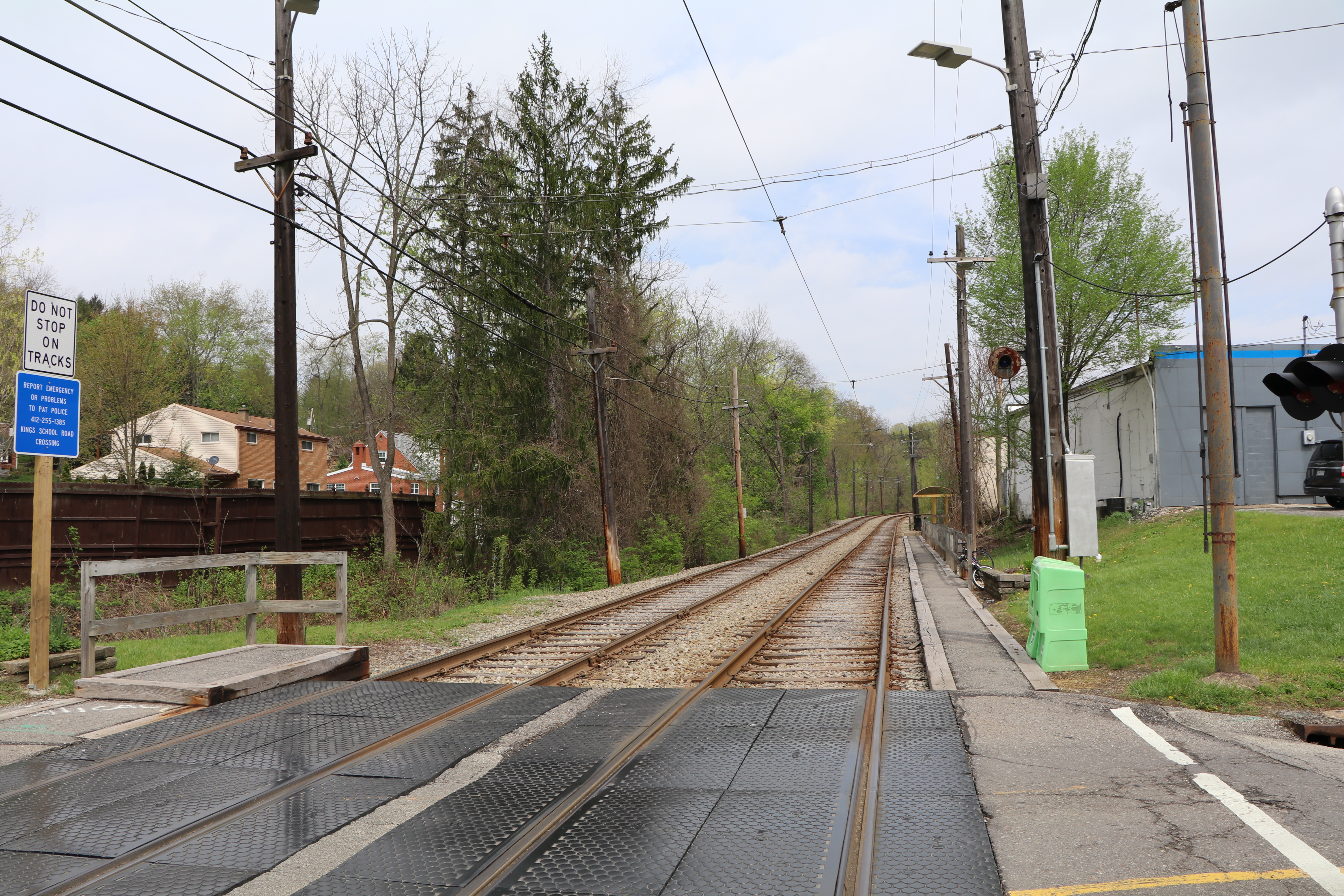 Kings School Road station on the Blue Line, Bethel Park, PA. View looking north, with the inbound platform on the right.